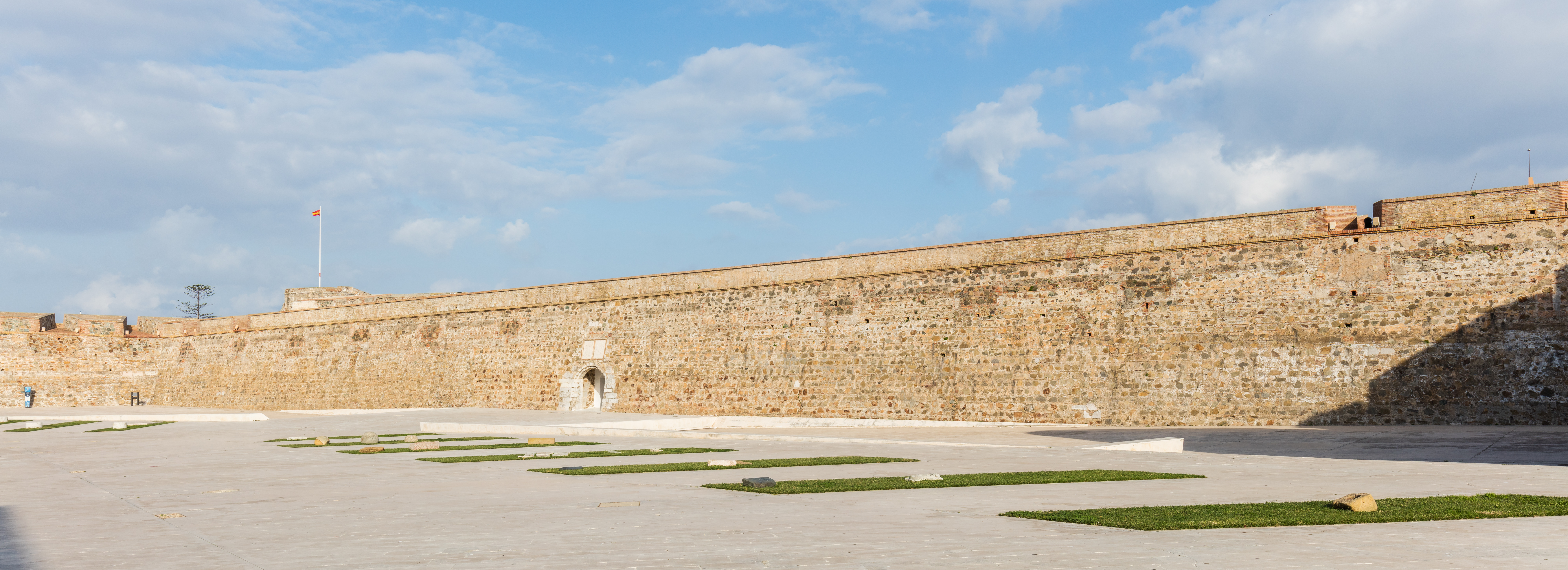 Royal Walls, Ceuta, Spain